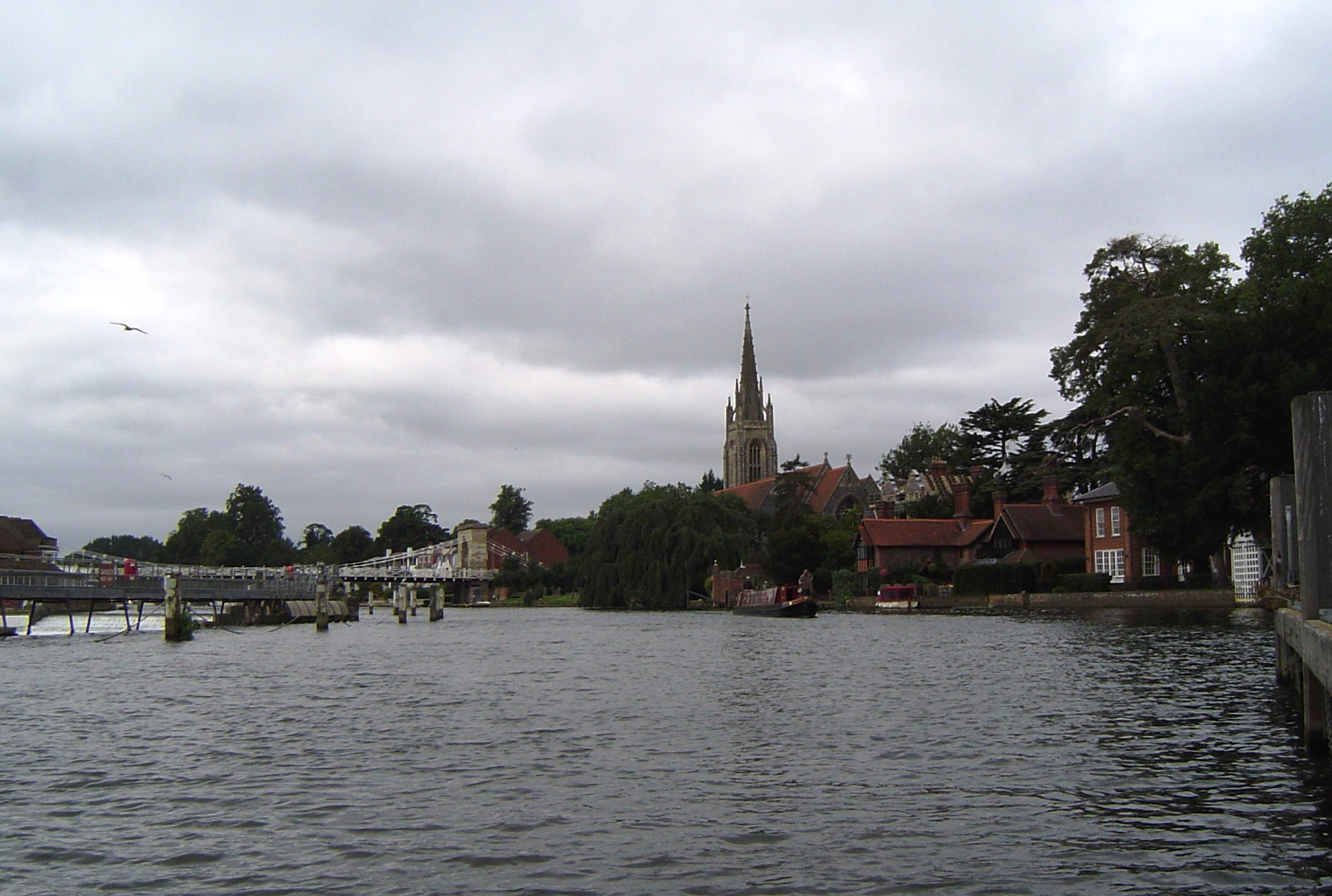 Marlow Lock River Thames looking upstream